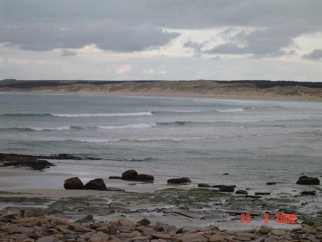 Dunnet Bay beach Taken from the Castletown end of the bay.